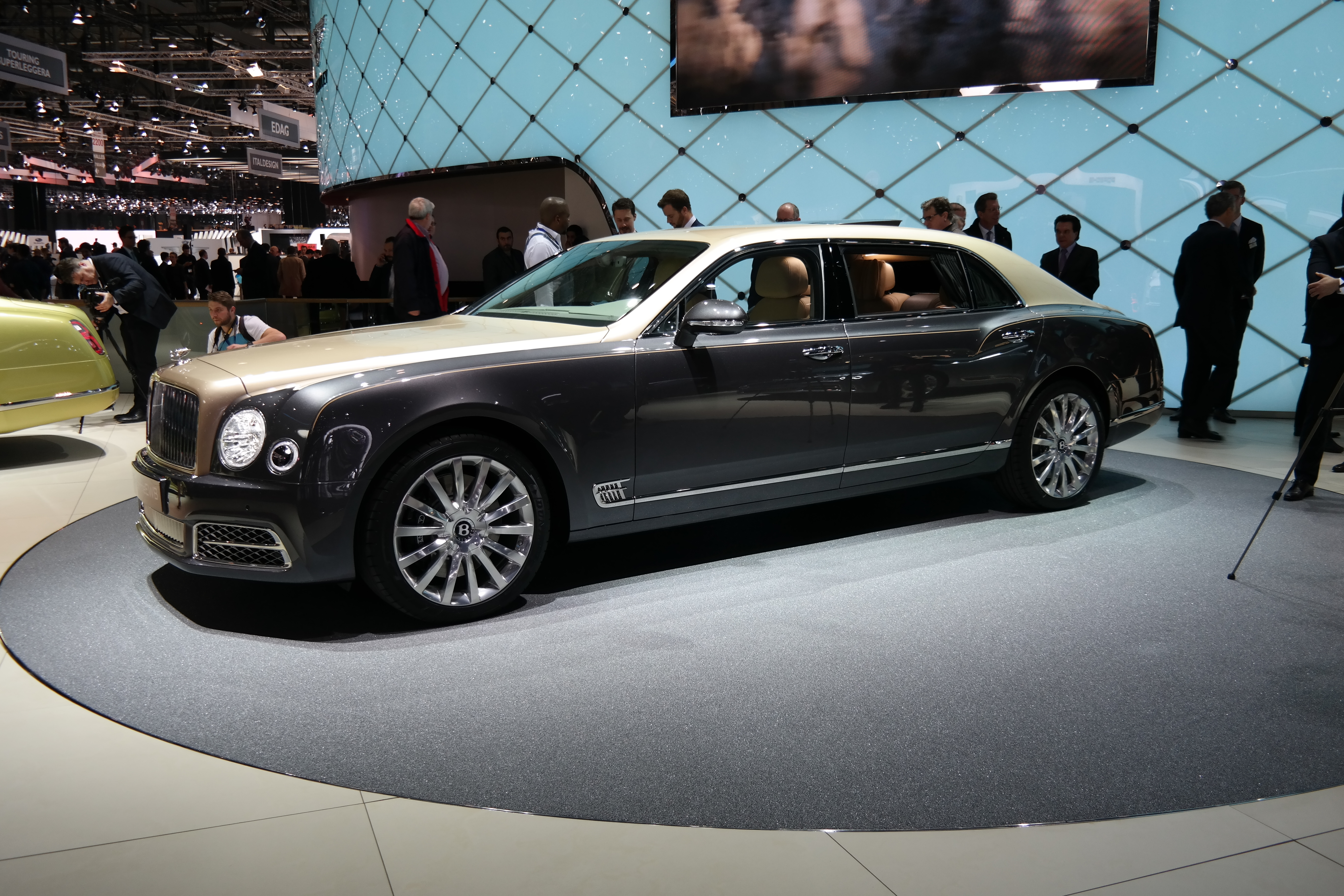 Geneva Motor Show 2016 (photo taken on the first press day)